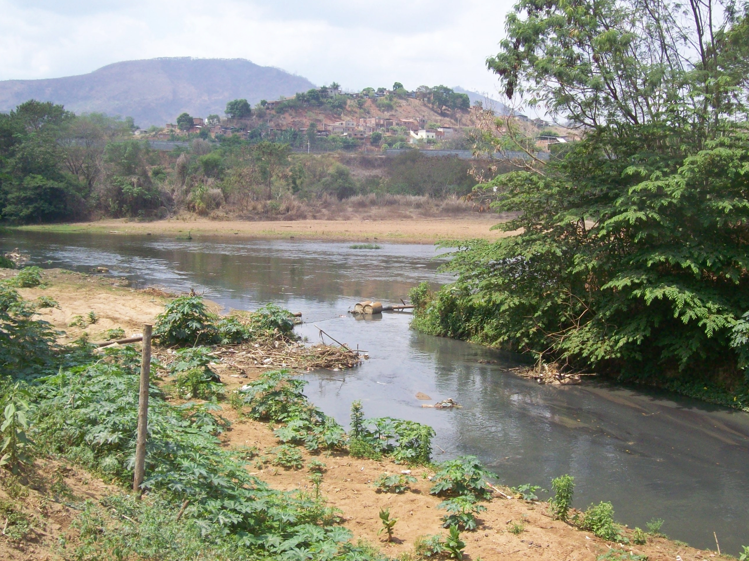 River mouth of the Caladão stream in the Piracicaba River, in Coronel Fabriciano, Minas Gerais, Brazil.